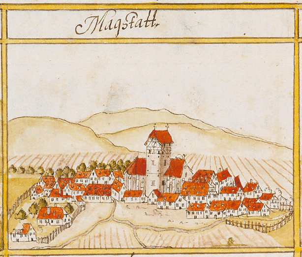 View of Magstadt from the forest register books created by Andreas Kieser